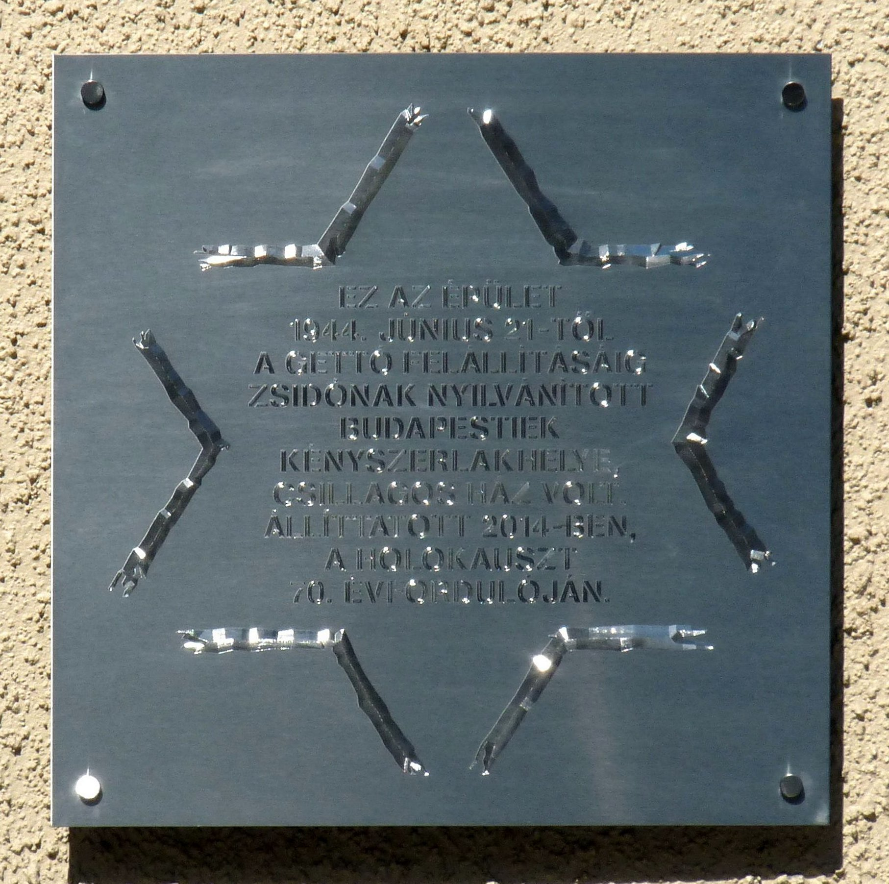 Plaque commemorating the 70th anniversary of the designation of this building as ‘Yellow Star House’ in 1944. These buildings served as forced residences for Budapest’s Jews until the establishment of the ghetto. The plaque was installed and unveiled June 21, 2014. (Budapest, District VI, Vasvári Pál Street Nr 3)